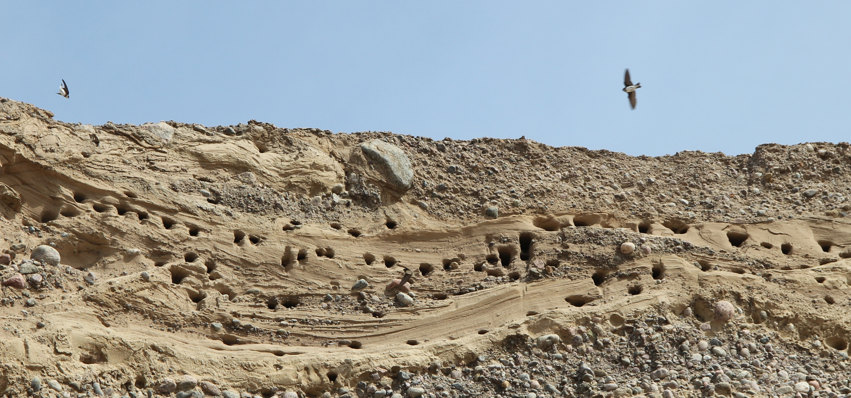 Riparia riparia nests in Uusimaa, Finland May 2012